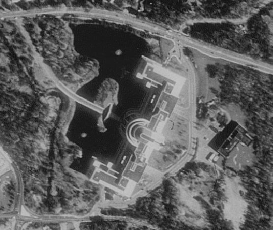 Aeriel shot of the 800 Westchester Complex, then known as the General Foods Corporate Headquarters.